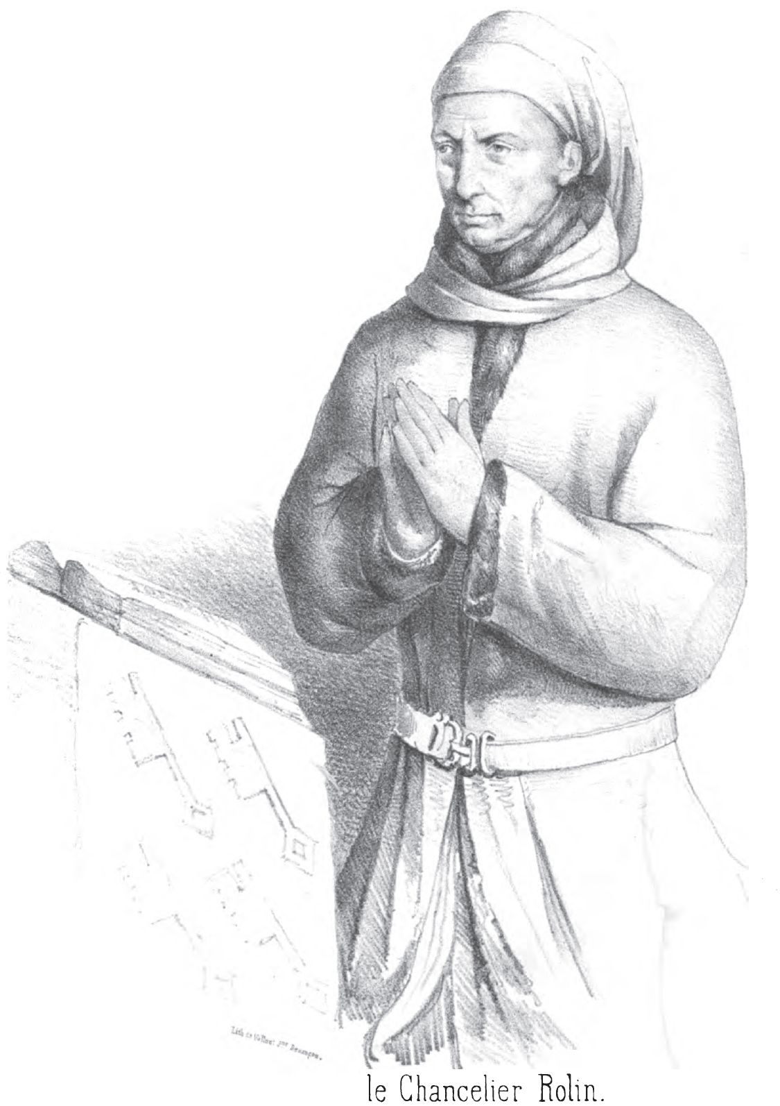 Nicolas Rolin (1376-1462) chancelor to Philip the Good.